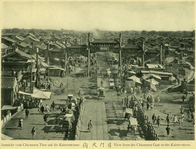 old photo from China 1900-1903, see the file's name for detail.